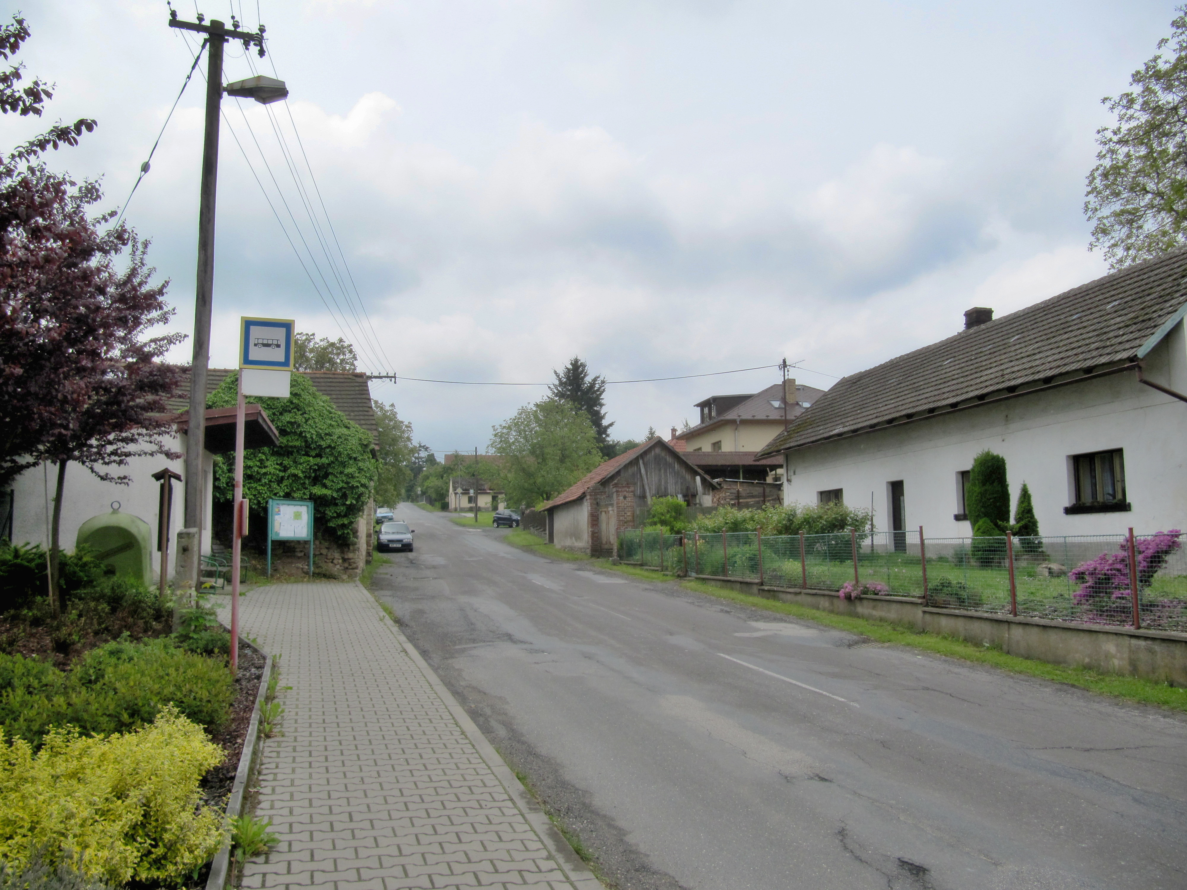 Malotice, Kolín District, Czech Republic, part Lhotky. Main street, towards Radlice.